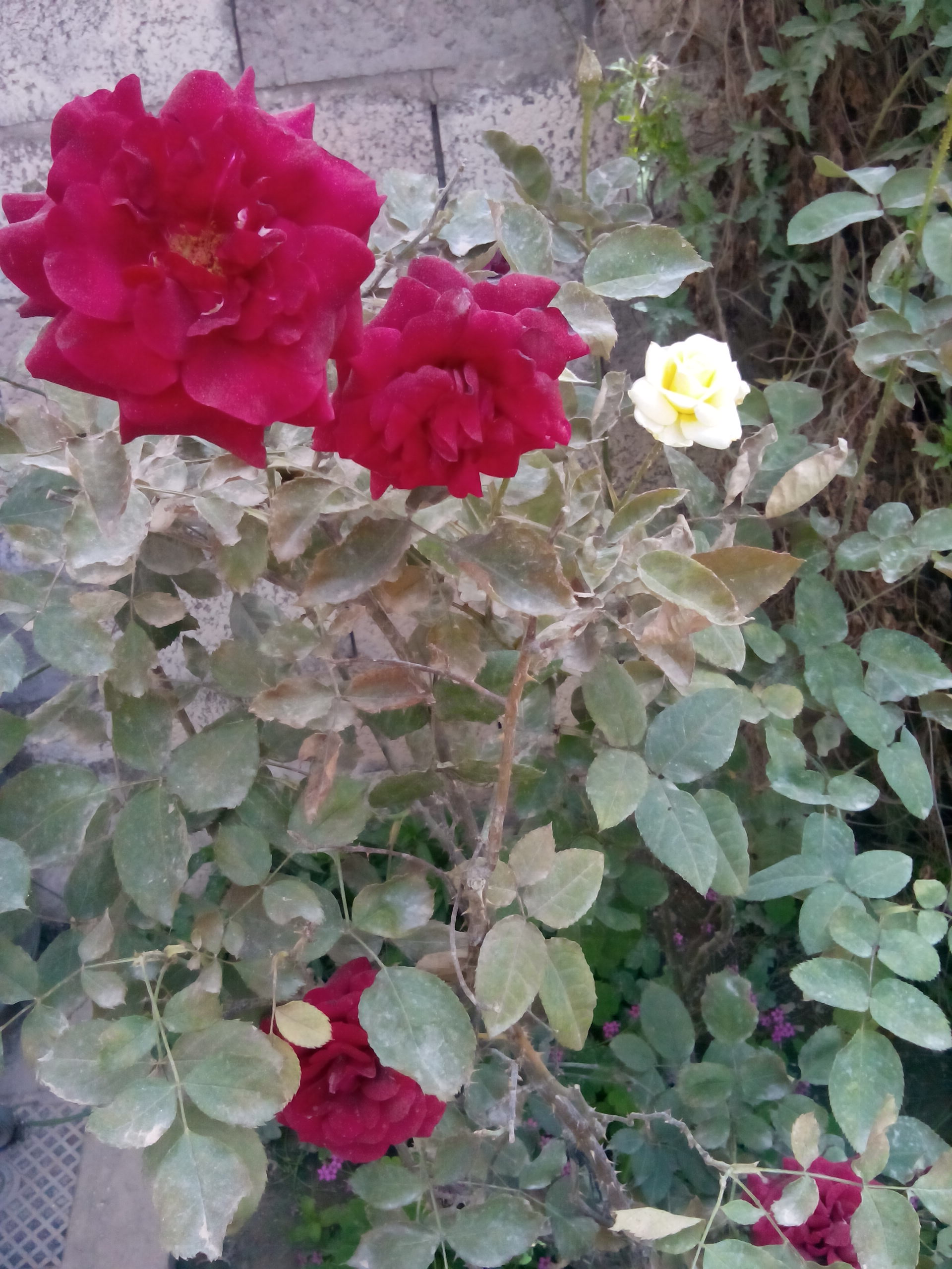 red and yellow Flowers in Baghdad